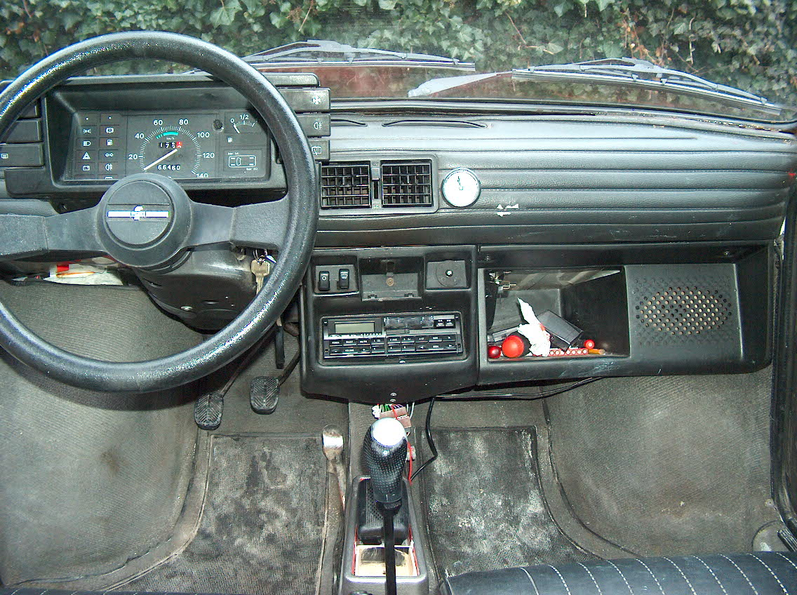 A dashboard of Polski Fiat 126p - late variant.